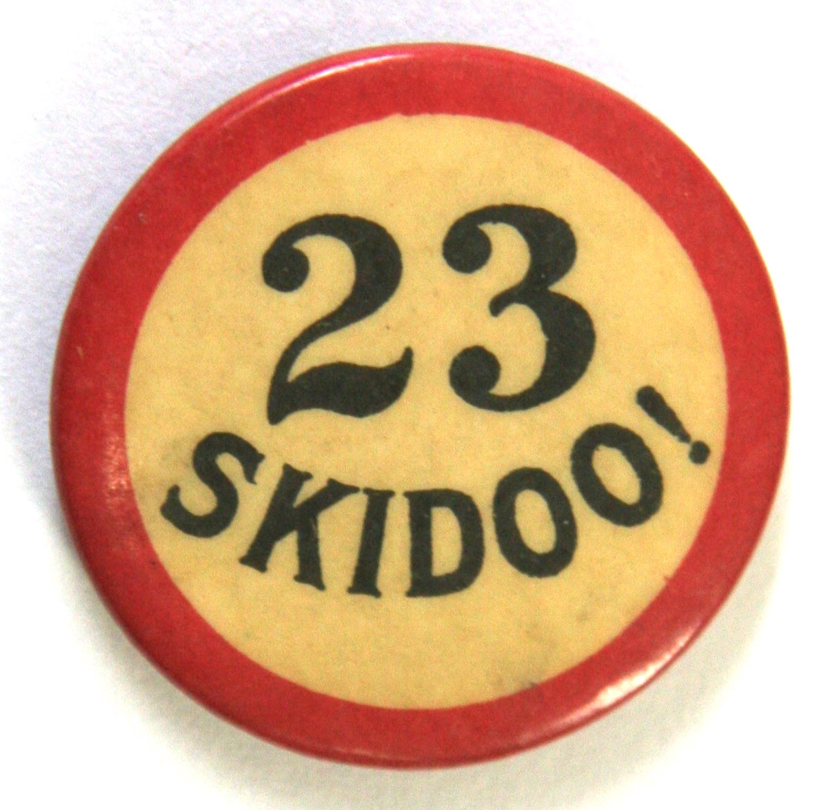 Early 20th century button with the phrase "23 SKIDOO!" in black on yellow within a red circle.